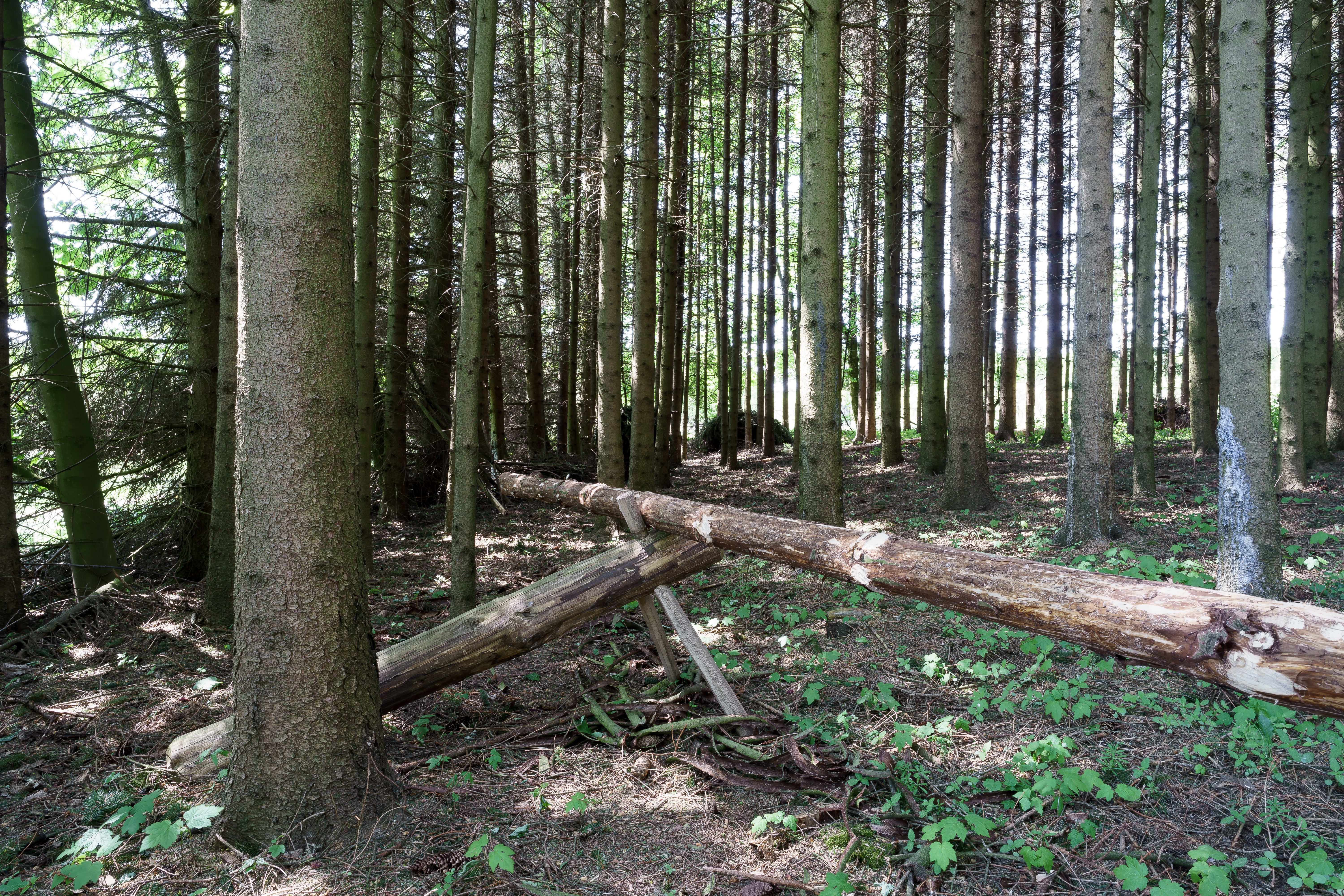 Manually decorticated trunk of a spruce as protection to bark beetles (Scolytinae) / Vogelsberg